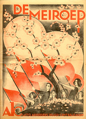 De Meiroep, 1931 voor een uitgave van de AJC (omslag), Fre Cohen